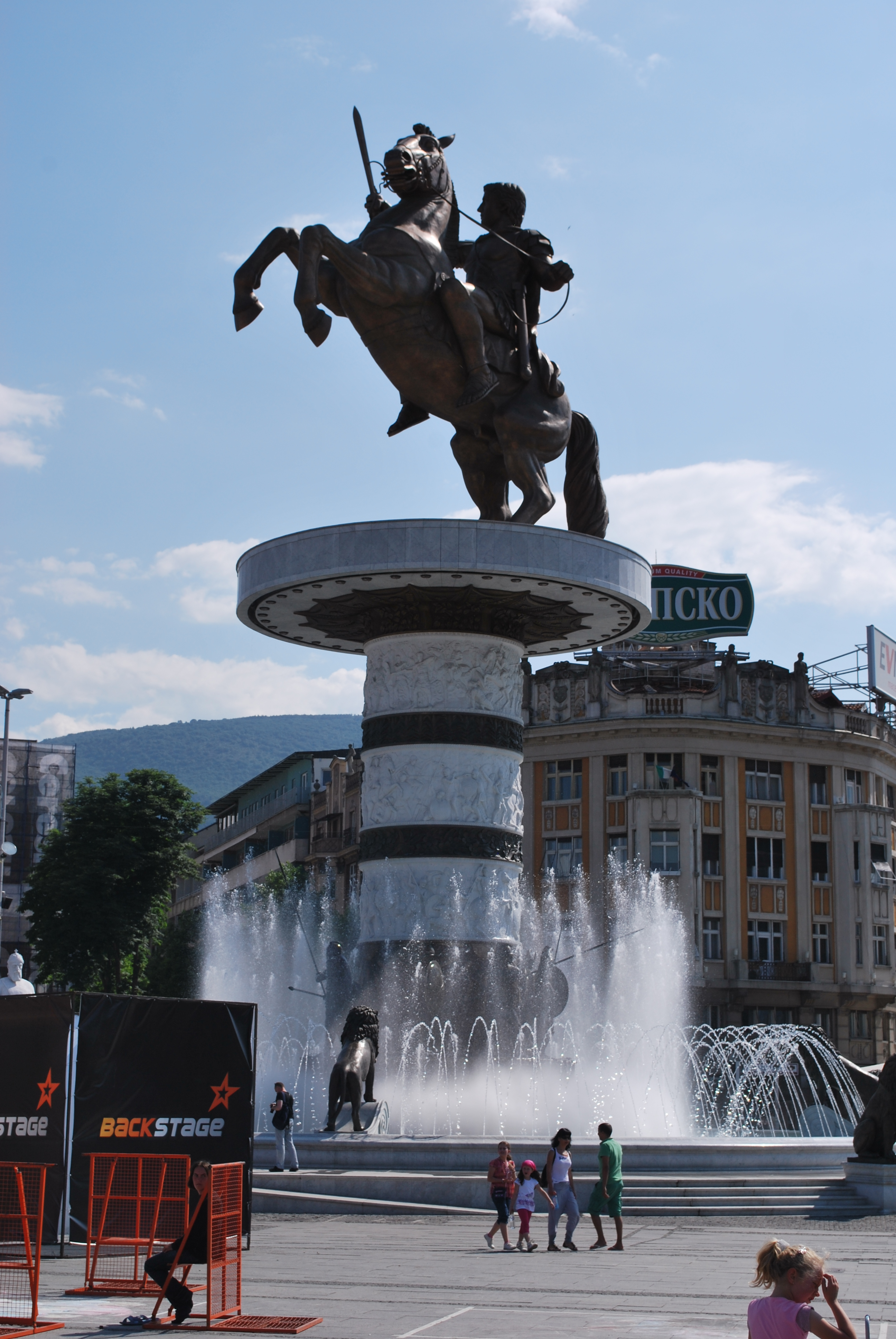 Warrior on Horseback in Macedonia Square in Skopje, Macedonia